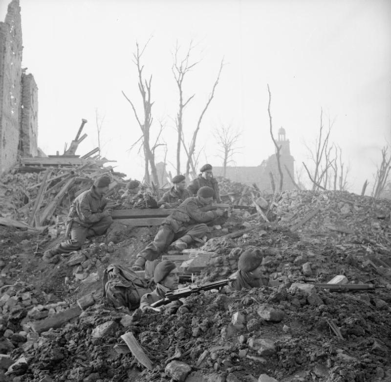 The British Army in North-west Europe 1944-45- Assault on the Rhine and Capture of Wesel 6th Commando personnel in a defensive position after capturing Wesel.